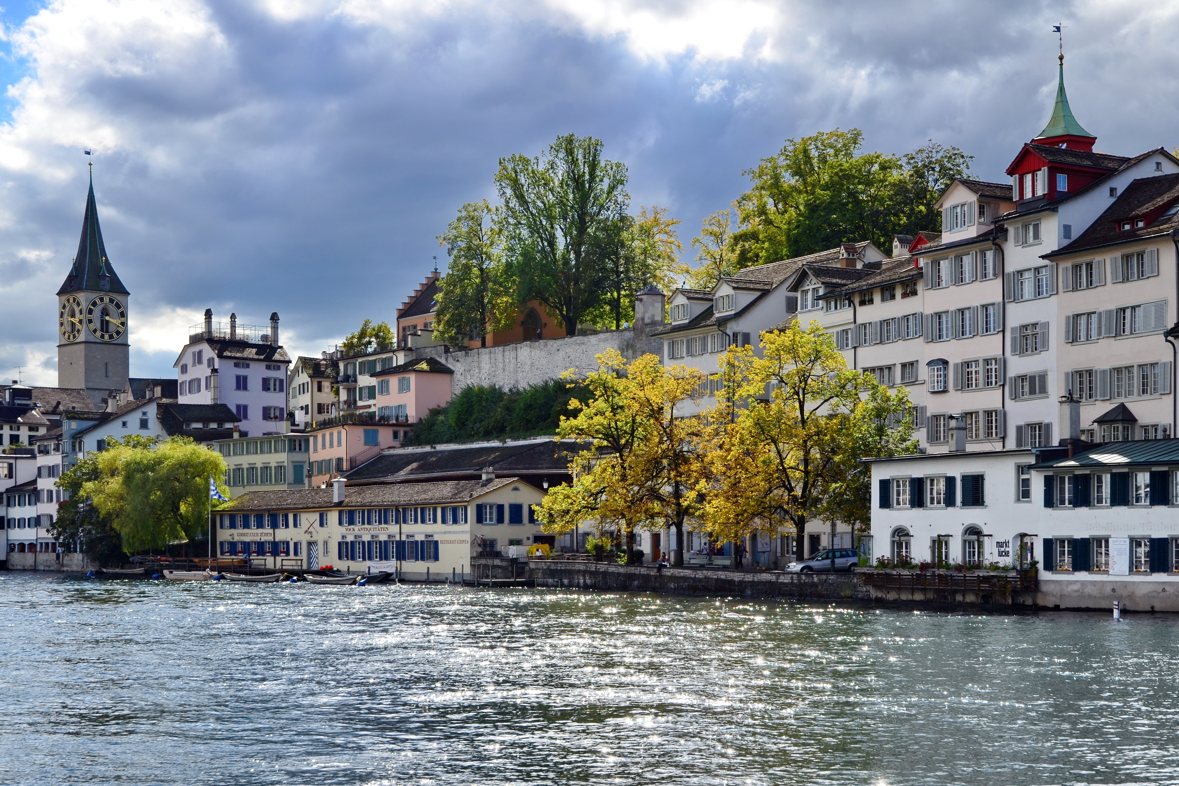 Lindenhof hill and Schipfe in Zürich